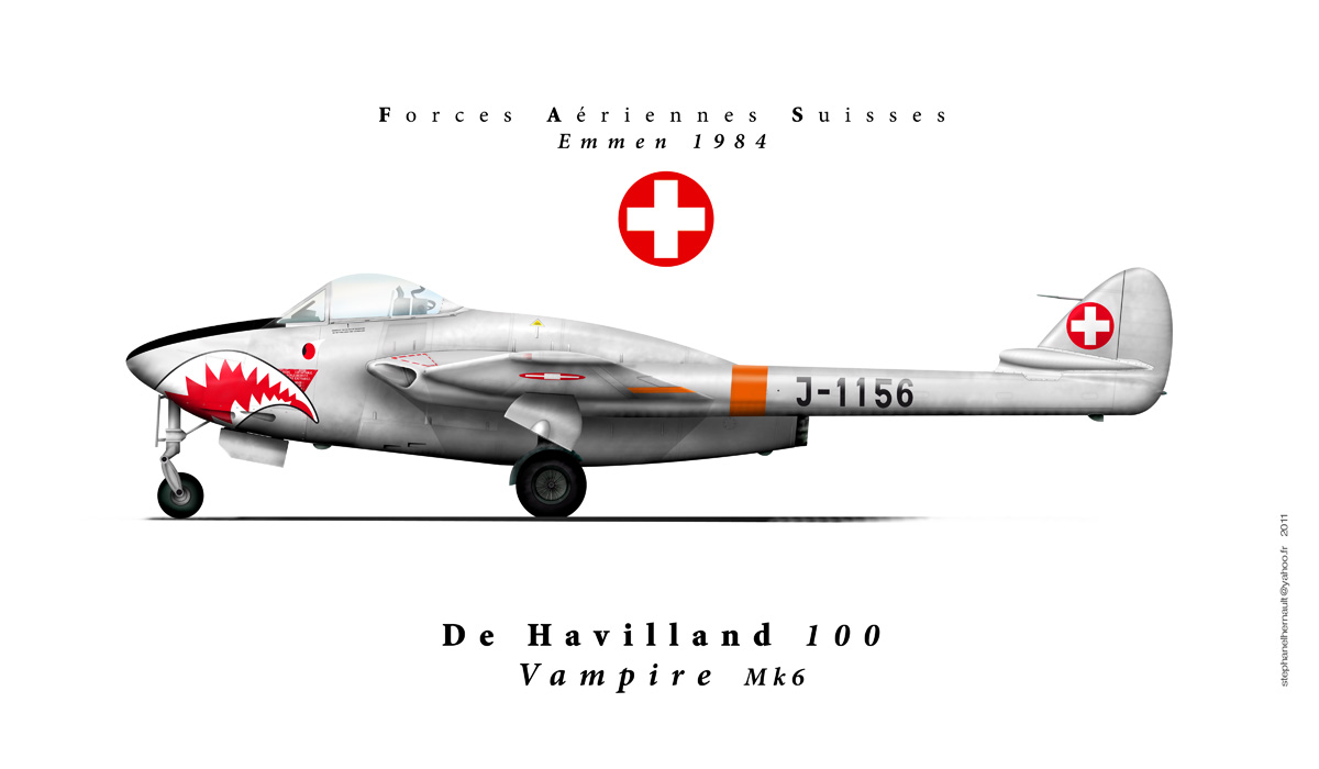 DH 100 Vampire Mk6 Swiss Air Force